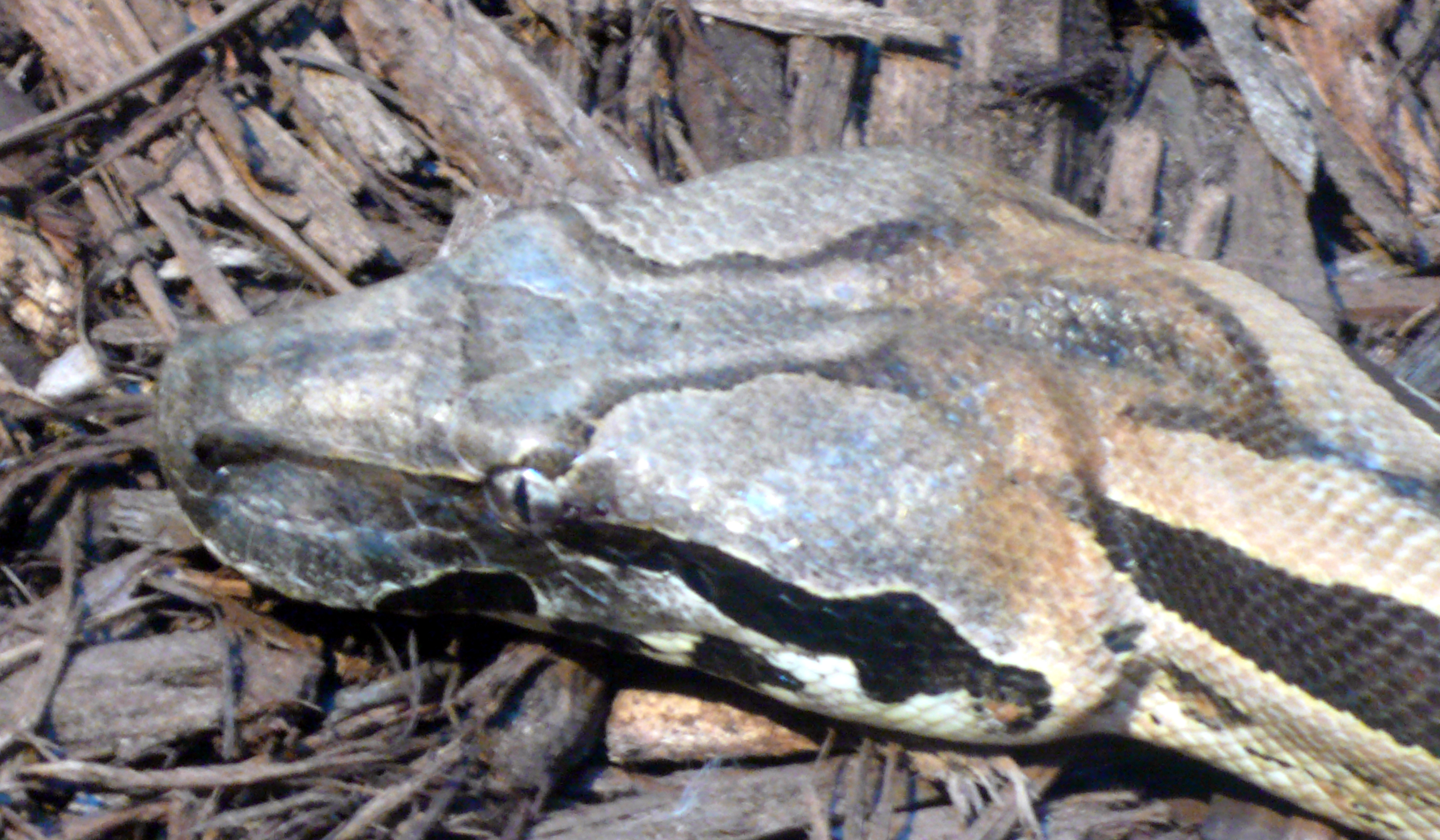 Madagascar Ground Boa (Acrantophis madagascariensis or Boa madagascariensis